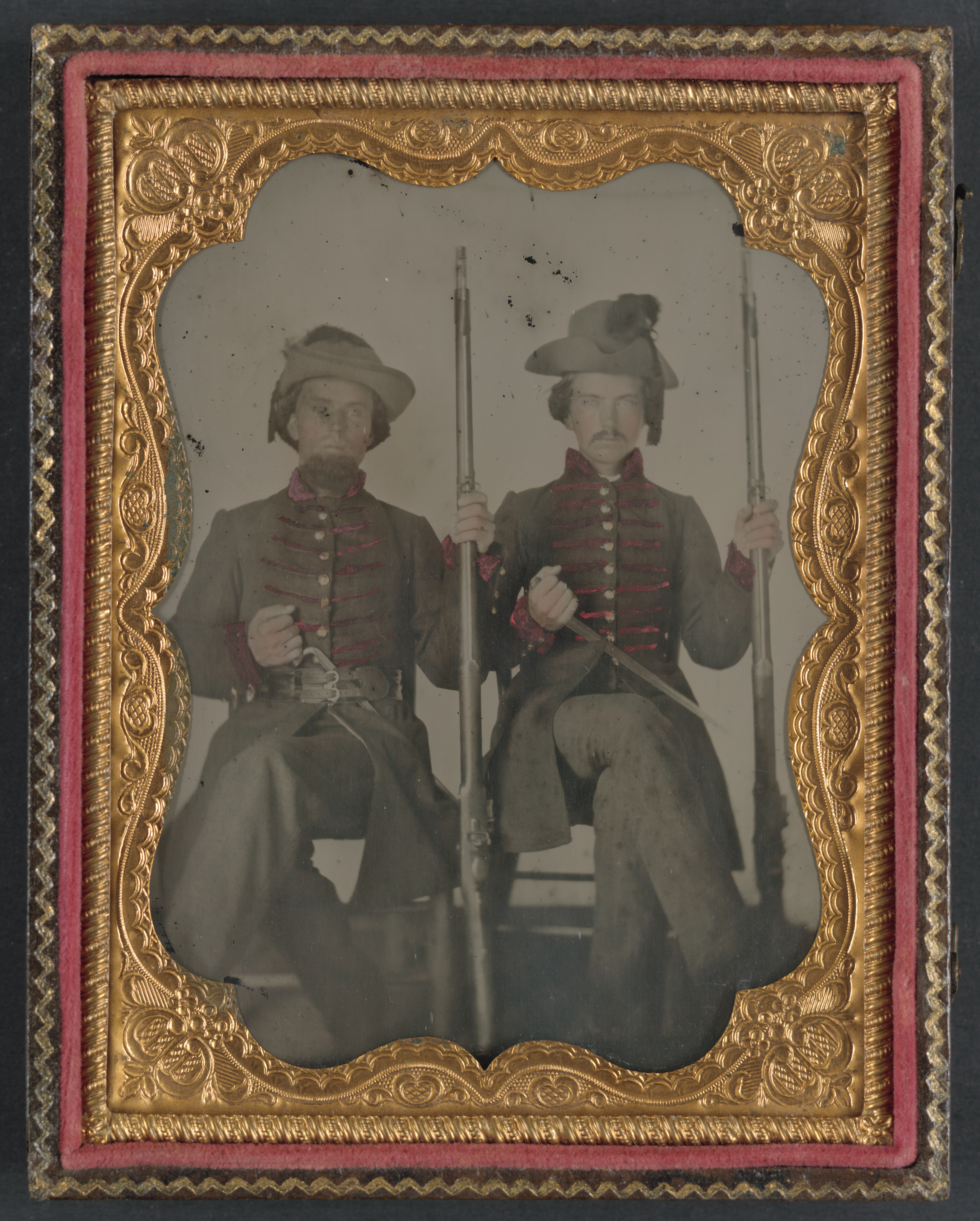 Title: Two unidentified soldiers in early war Mississippi uniforms with muskets and bayonets Abstract/medium: 1 photograph : quarter-plate ambrotype, hand-colored ; 11.9 x 9.3 cm (case)